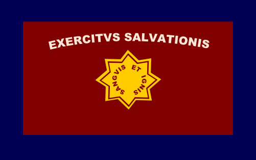 The flag of The Salvation Army in Latin.